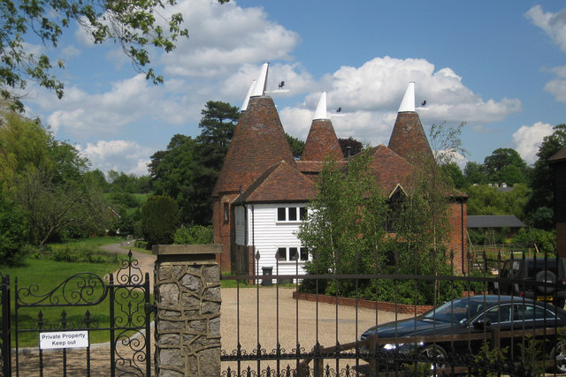 Manor Oast & Greenside Oast, Sheldon Court, Ditton, Kent Four round kiln oast house. Had been used as a golf club house, and was converted to a dwelling in the last few years. Grade II listed